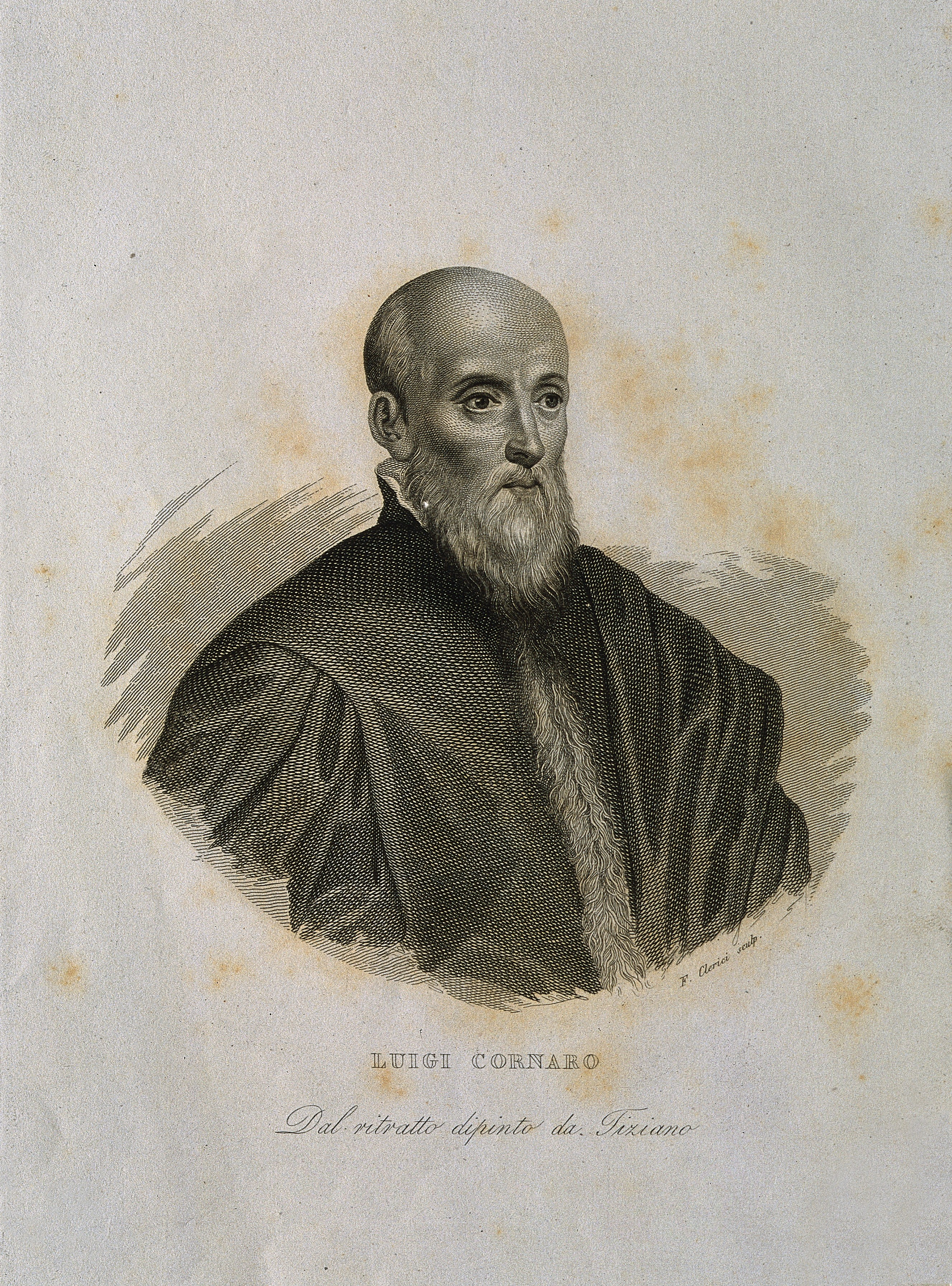 Luigi Cornaro. Line engraving by F. Clerici. Iconographic Collections Keywords: portrait prints; cornaro, luigi, 1463-1566?; F. Clerici; engravings; Luigi Cornaro